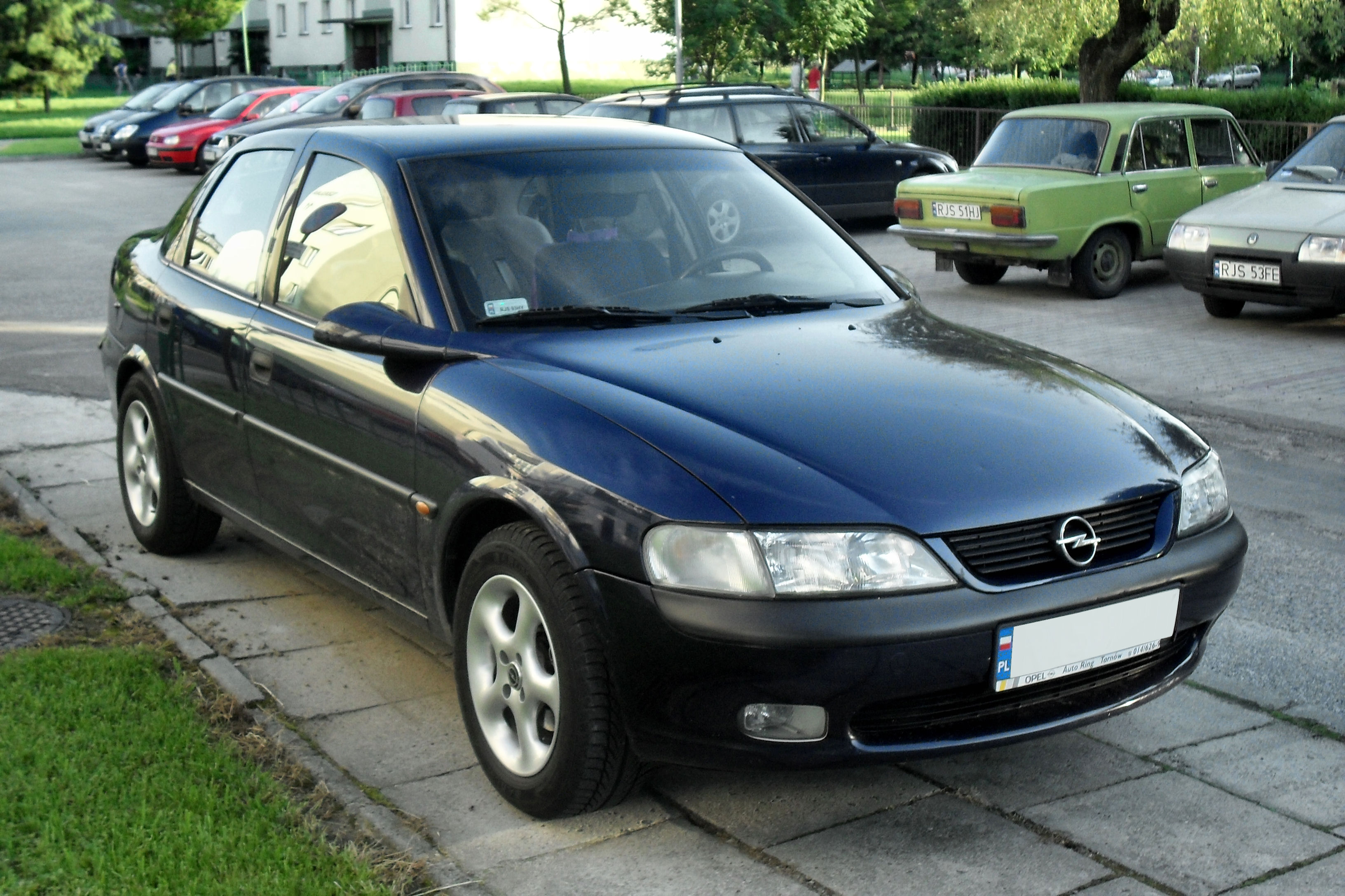 Opel Vectra B seen in Jasło, Poland.